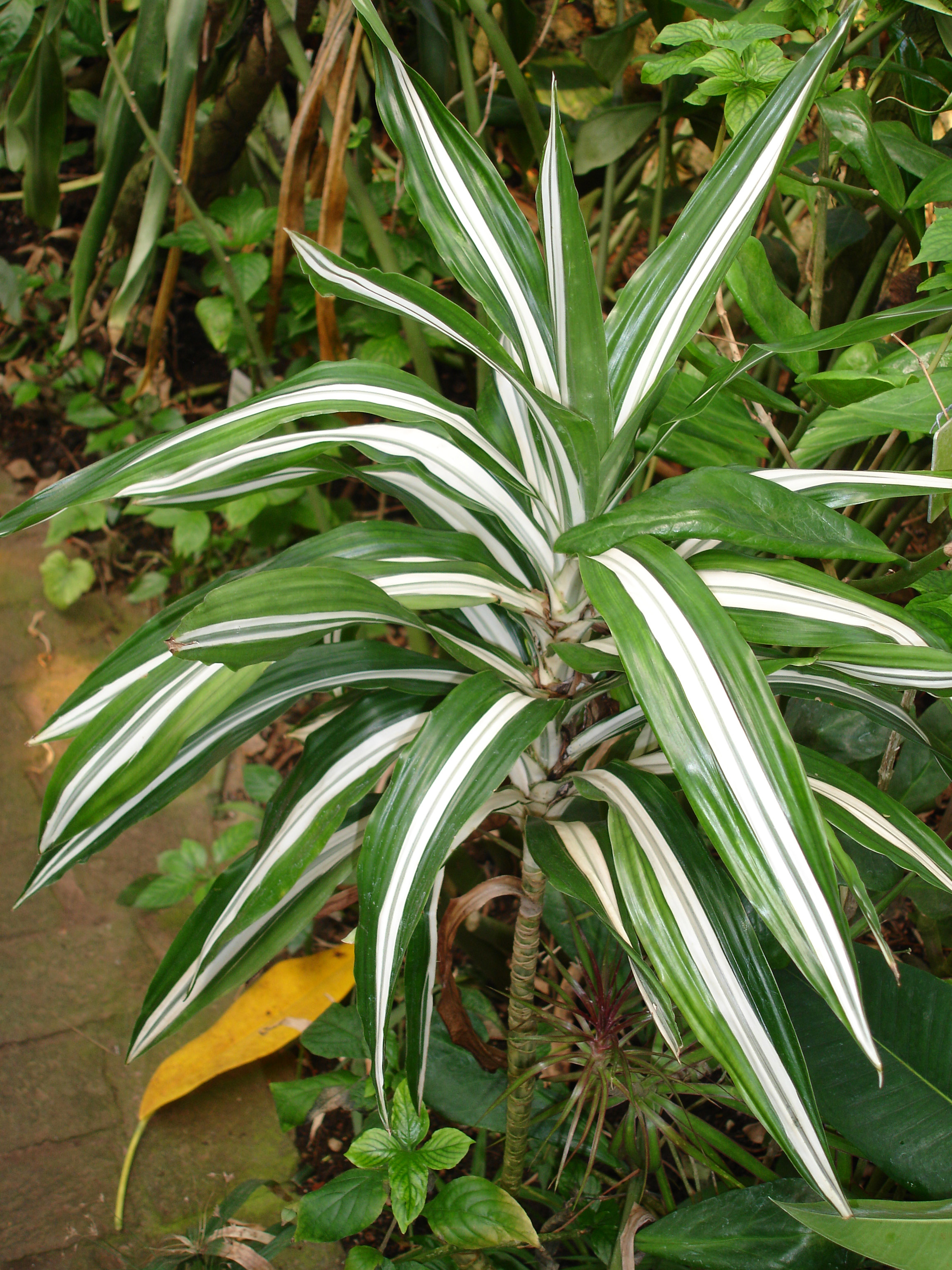 Dracaena deremensis